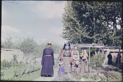 Lhalu Lhacham and family members at Dekyi Lingka